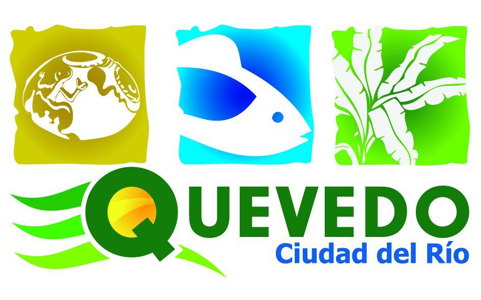 Quevedo